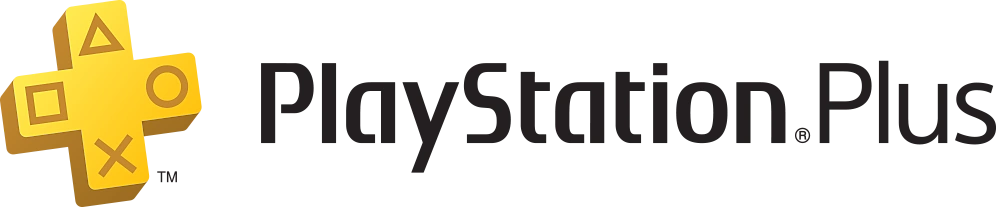 The PlayStation Plus logo